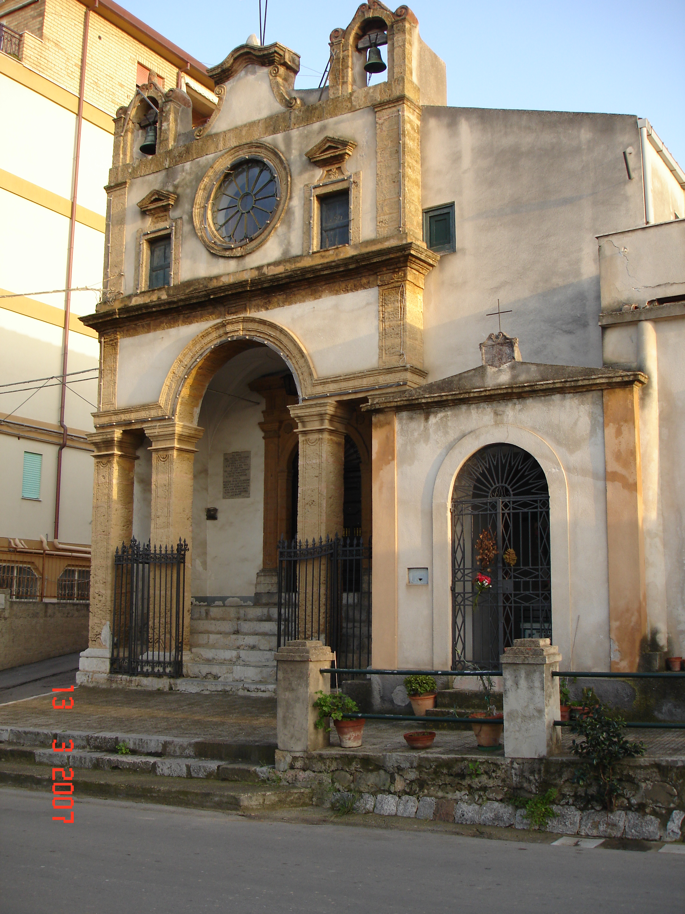 Church of Santissimo Salvatore in Cefalù Cortesemente offerta da Pascal Guercio